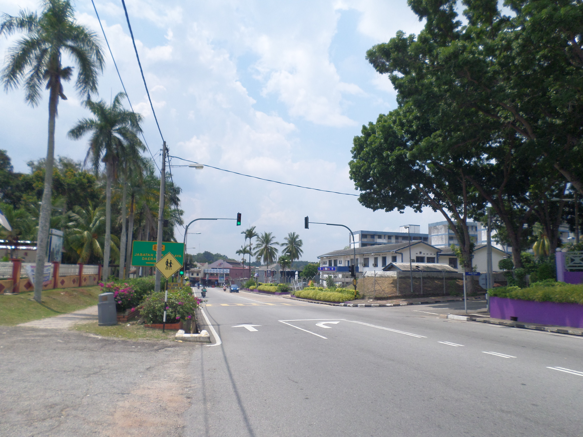 Jasin Town, Jasin, Melaka, MalaysiaBahasa Melayu: Bandar Jasin, Jasin, Melaka, Malaysia